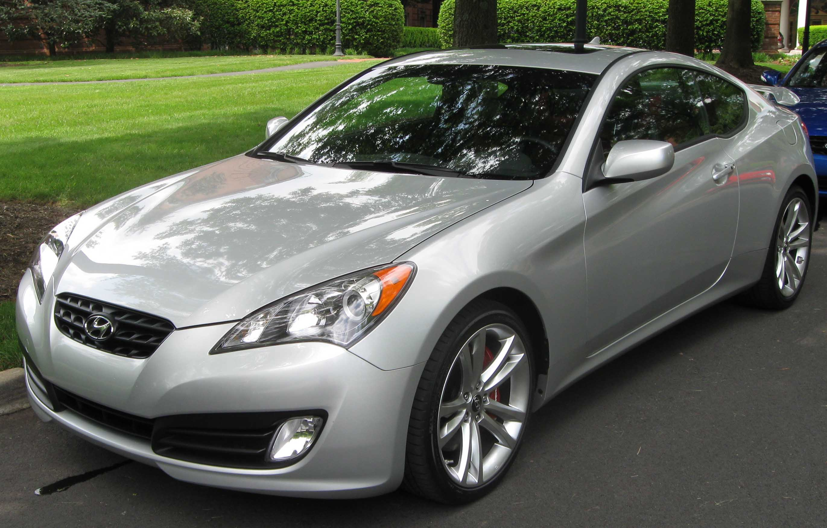 2010 Hyundai Genesis Coupe photographed in Chantilly, Virginia, USA.